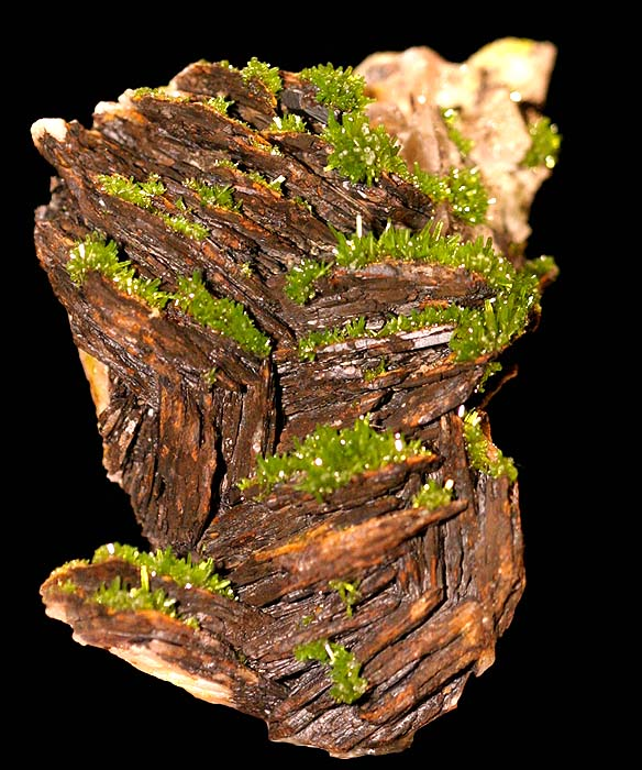 Baryte, Fluorite, Pyromorphite Locality: Chaillac Mine, Chaillac, Indre, Centre, France (Locality at ) Size: miniature, 5.6 x 4.0 x 2.5 cm Pyromorphite with Fluorite on Barite For my taste, this may be the most aesthetic pyromorphite group I have seen from Chaillac. Start with a barite matrix and small yellow fluorites on the top right,then go to terraced shelves with bright grass green acicular groups of pyromorphites arranged like hanging baskets. True,the crystals are tiny but the whole effect is amazing! 5.6 x 4.0 x 2.5 cm